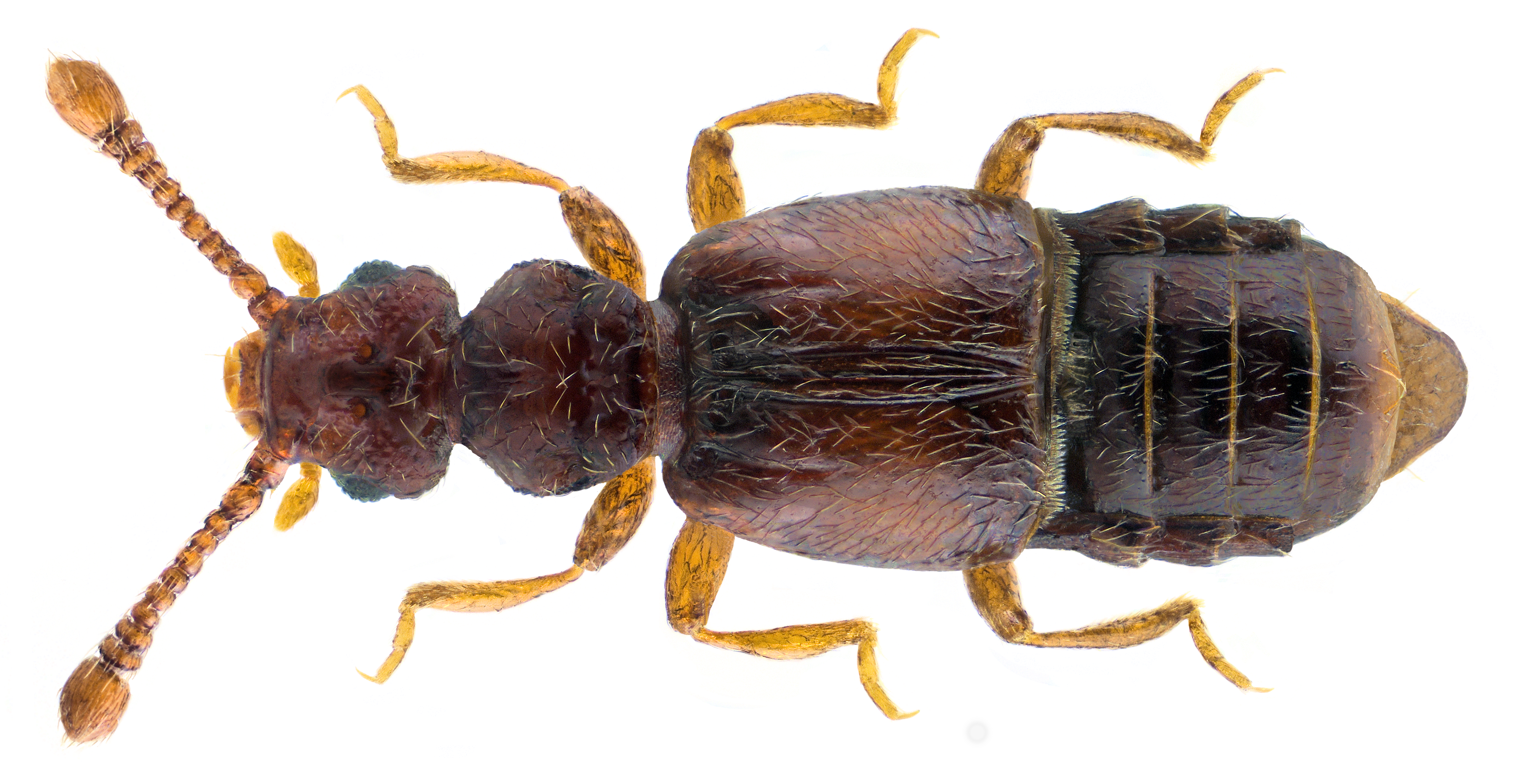 Euplectus sanguineus Denny, 1825 Family: Staphylinidae Size: 1.5 mm (1.4 to 1.6 mm) Distrubution: Europe, Caucasus Ecology: In rotting plants Location: Germany, Saxony, Pirk, Weiße Elster valley leg. U.Schmidt, 12.XI.2005; det. W.Apfel, 2006 Photo: U.Schmidt, 2018